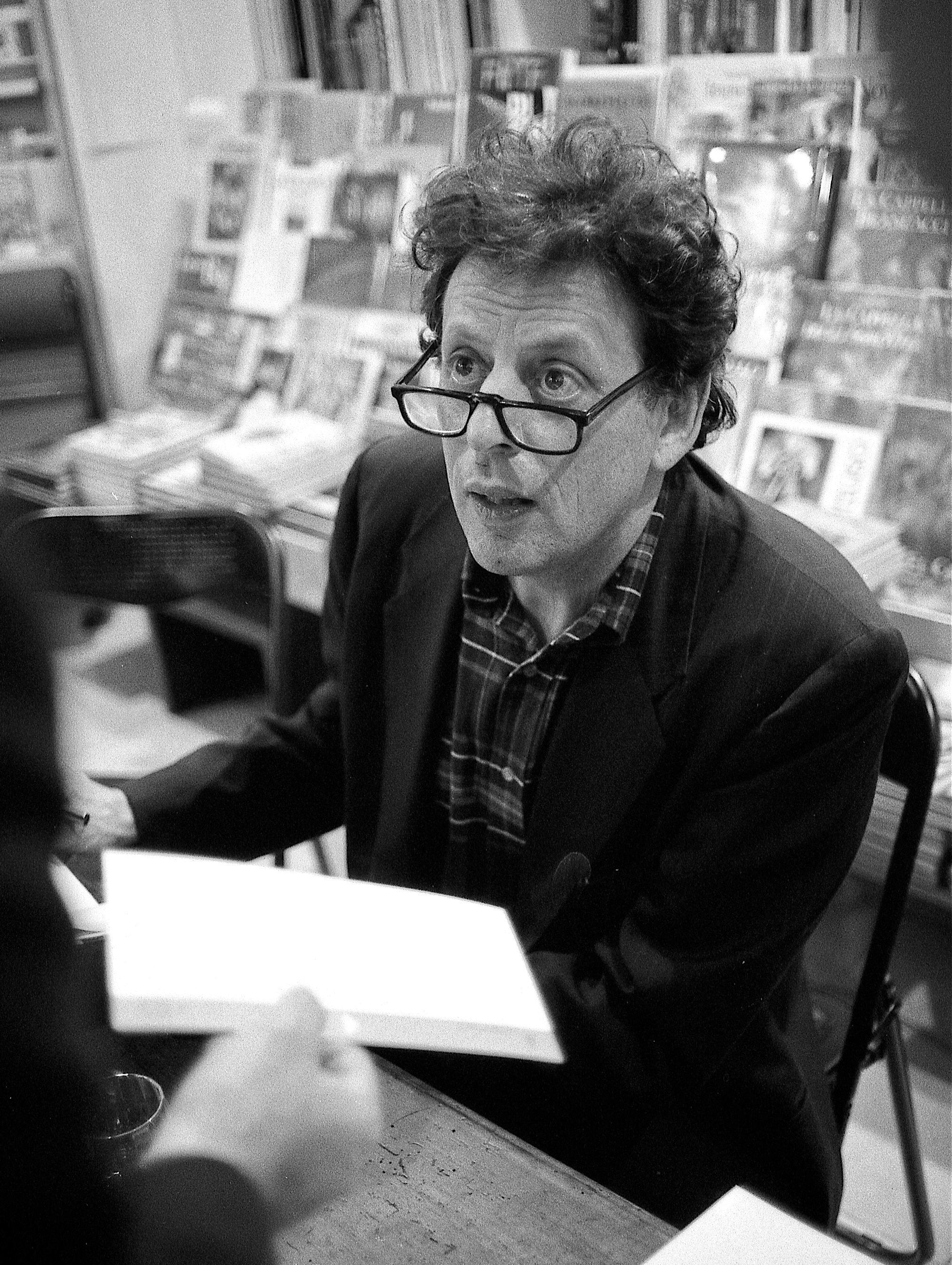 Composer Philip Glass, Florence 1993